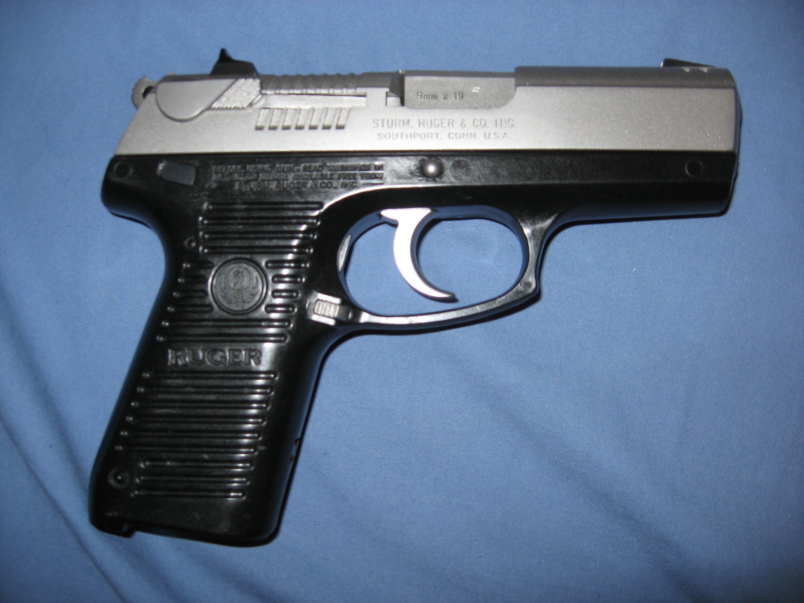 Ruger P95DC 9mm